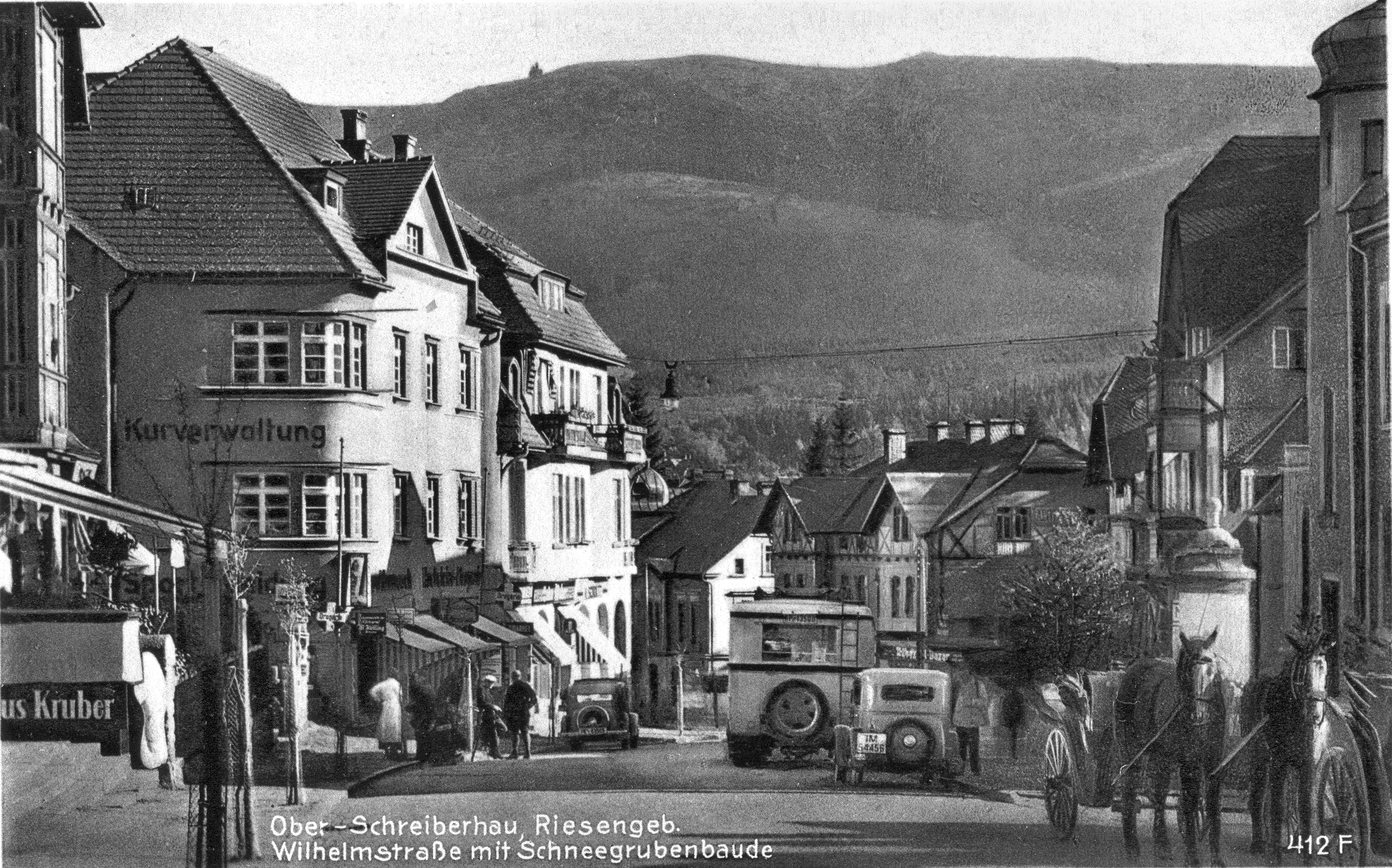 Szklarska Poreba, Germany, now Poland.